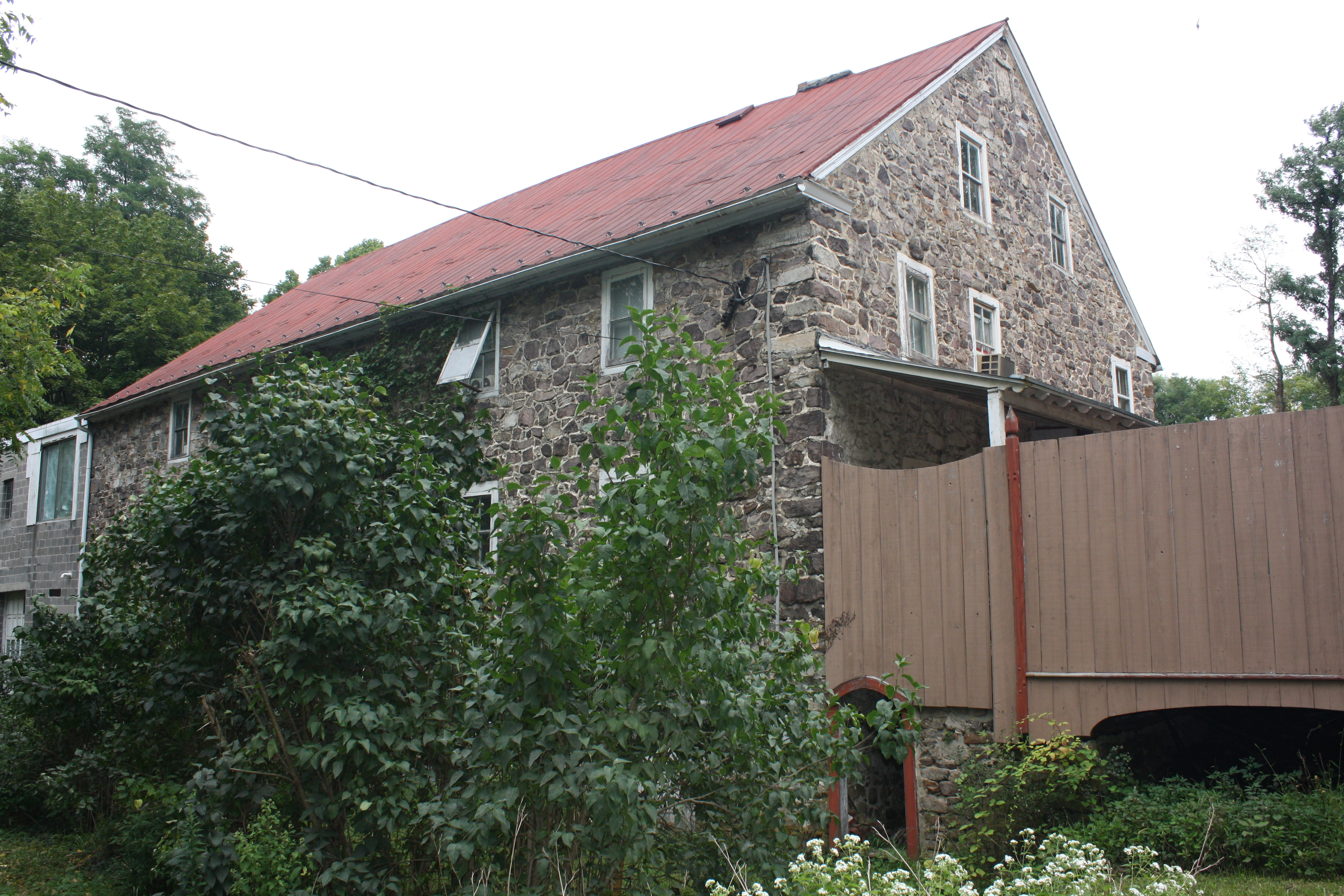 Guldin Mill is a historic grist mill and national historic district located in Maidencreek Township, Berks County, Pennsylvania. View from Guldin Rd.